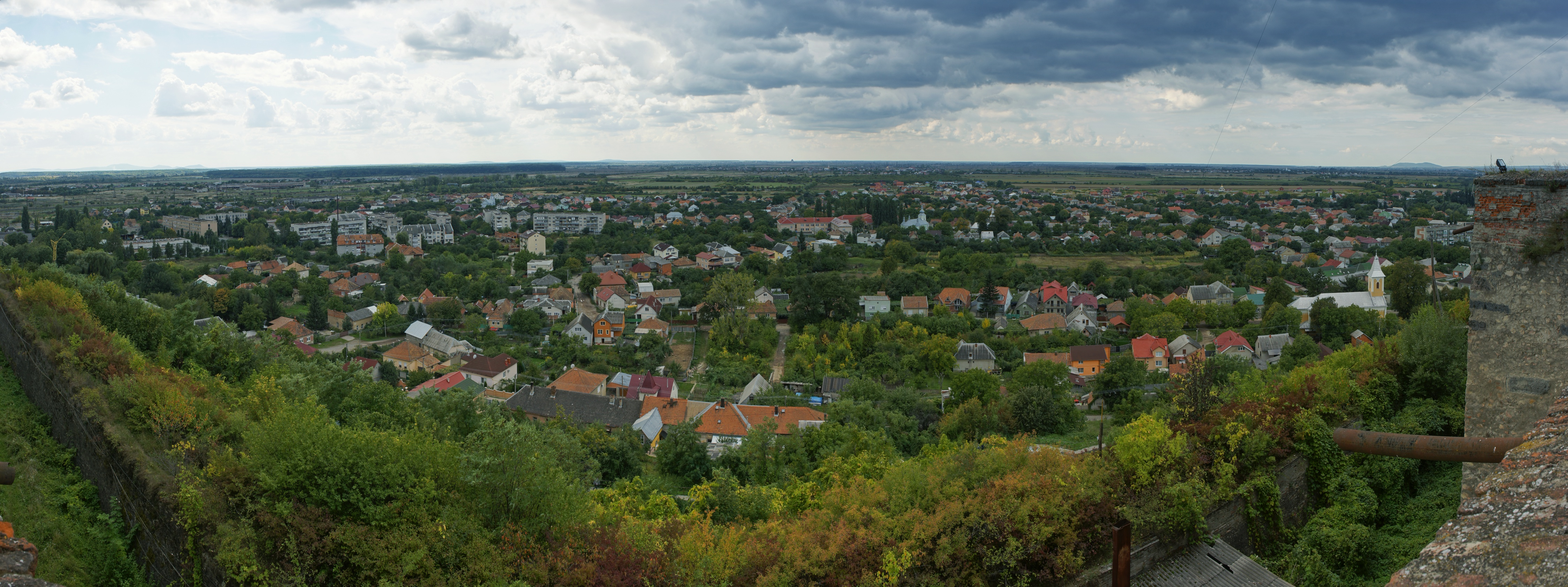 The view from the fortress walls of the castle Palanok